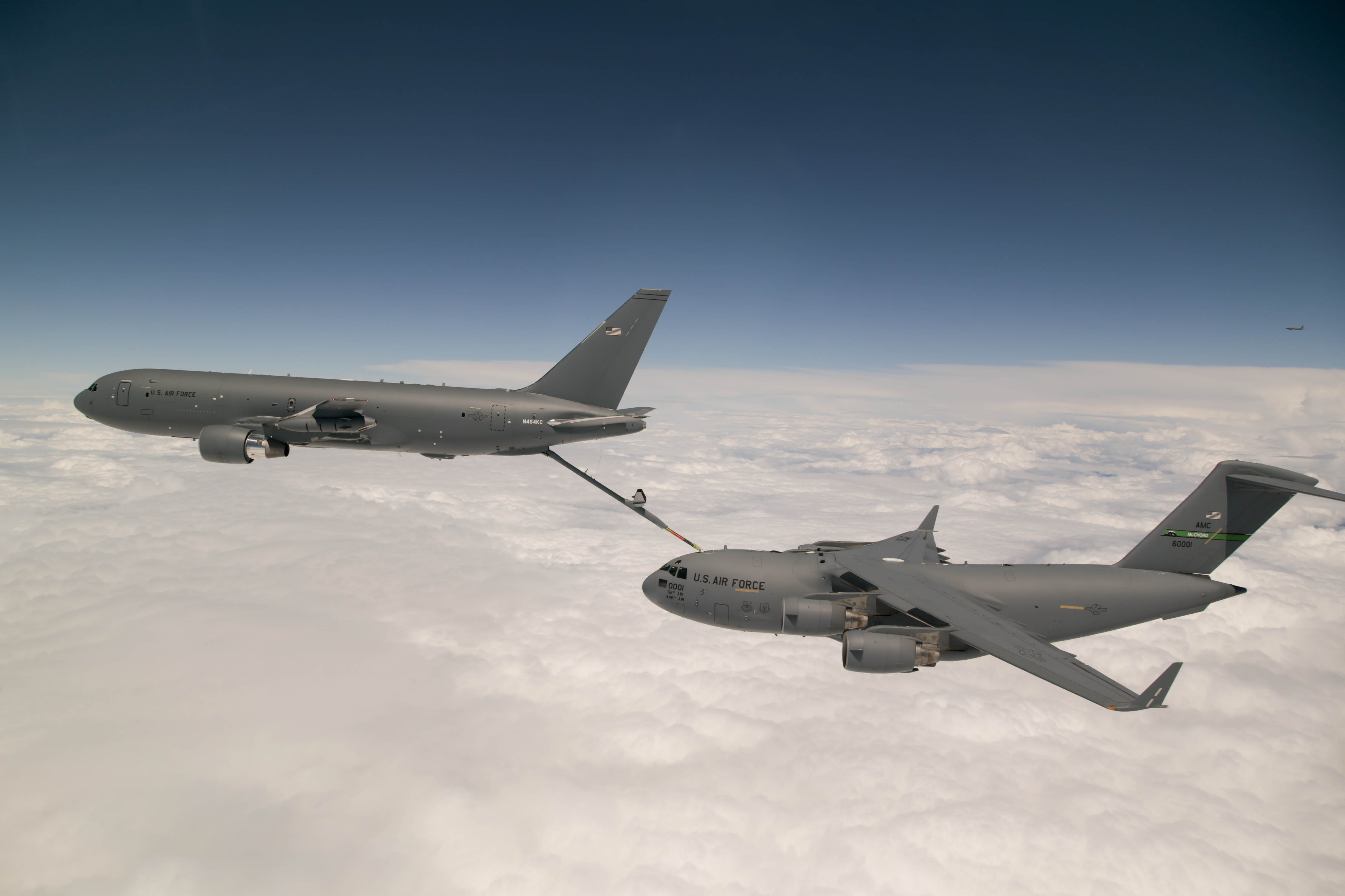 160712-F-HP195-xxx SEATTLE, Wash. (July 12, 2016) Boeing's KC-46 aerial refueling tanker conducts receiver compatibility tests with a U.S. Air Force C-17 Globemaster III from Joint Base Lewis-McChord as part of Test 003-06. The event marks the nearing completion of "Milestone C" in the new tanker's developmental testing stage.